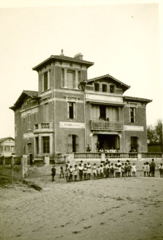 Villa Saint-Christophe, at Canet-Plage, in France, during WWII. Children home hosting 60 children cared by Lois Gunden, Righteous Among the Nations. Citation: Lois Gunden Clemens Photograph Collection. France, 1941-1942. HM1-926 Box 1 Folder 9. Mennonite Church USA Archives - Goshen. Goshen, Indiana.